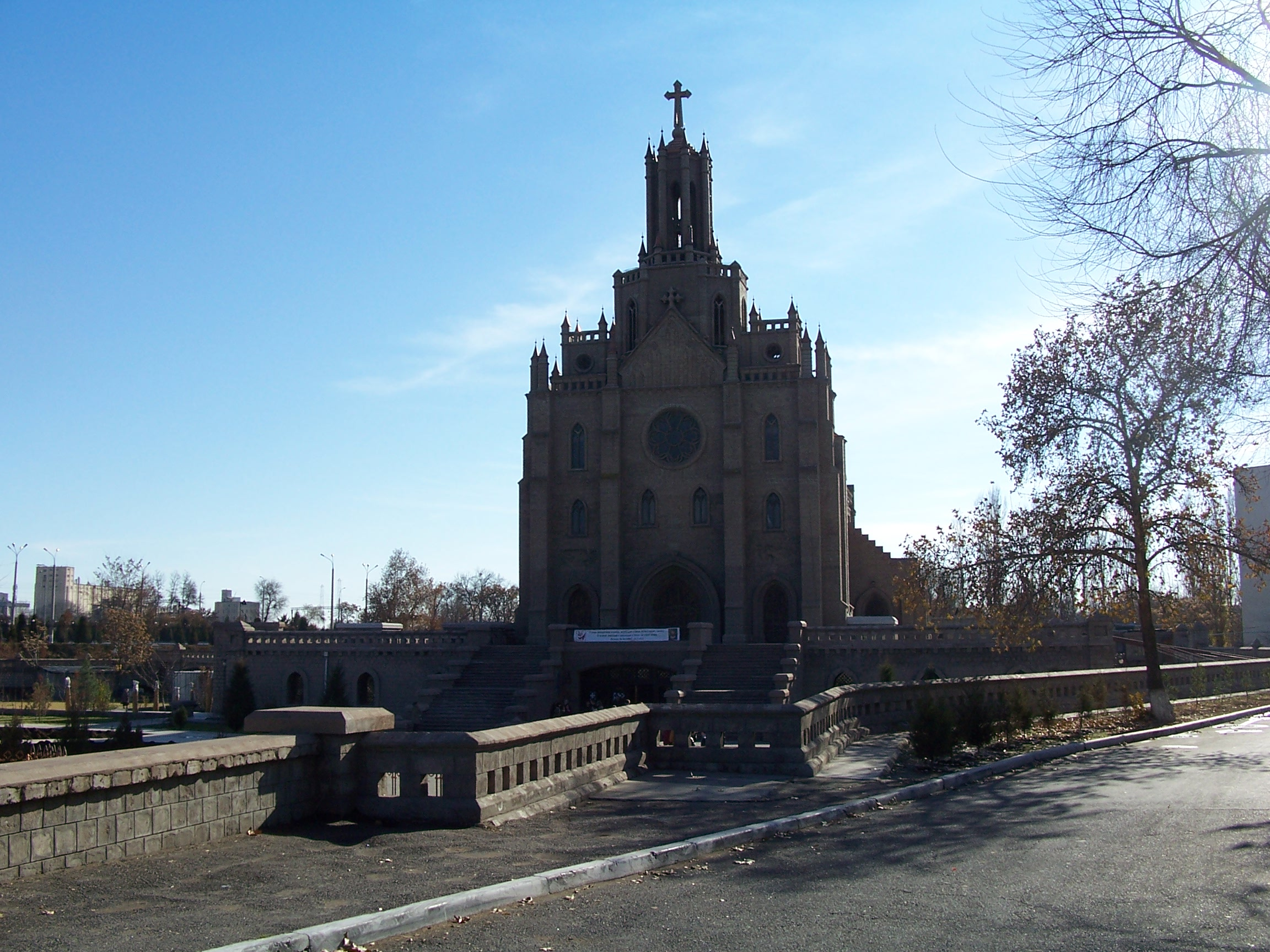 Sacred Heart Cathedral, Tashkent.Oʻzbekcha/ўзбекча: Muqaddas Yurak Sobori, Toshkent.